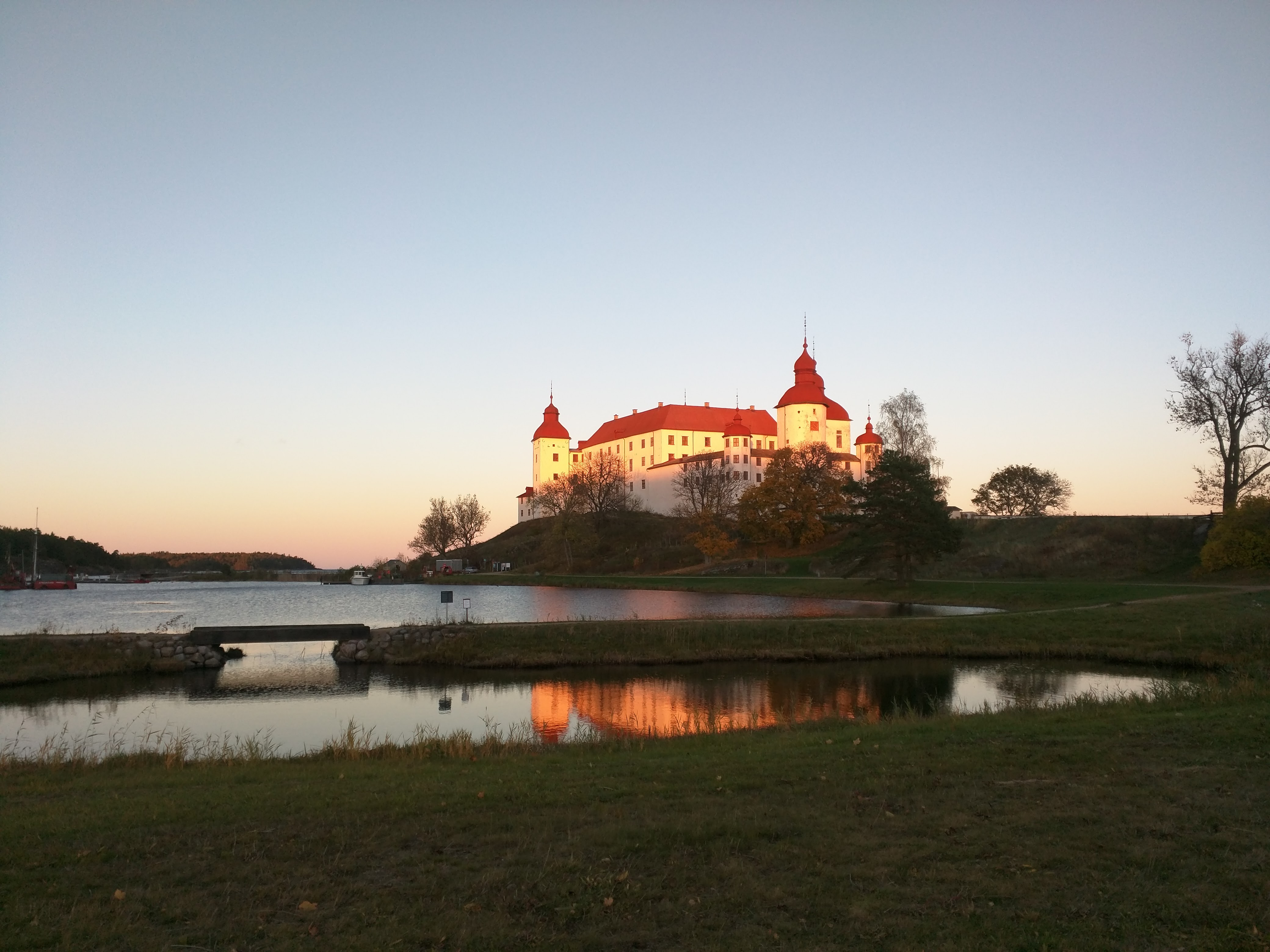 A picture at Läckö Castle, by night.